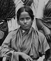 This is a part of a picture of Sister Subbalakshmi sitting with what appears to be either her fellow teachers at the Triplicane School, or when she was studying for her Matriculation at the P.T.School, Egmore.